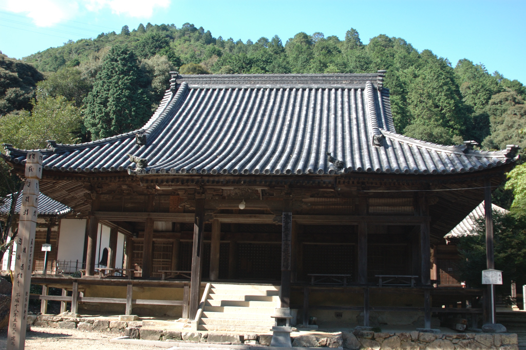 Main Hall of Fukushoji Buddist temple